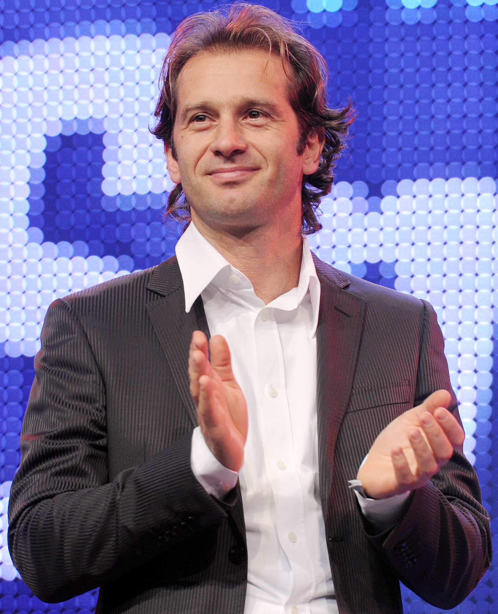 Davos, 03.10.2014. Sport, 12. Internationale Sportnacht Davos 2014.Der ehemaligen Formel-1-Pilot Jarno Trulli.. Copyright by: foto-net / Kurt Schorrer